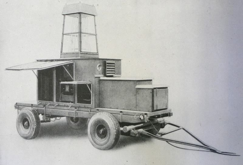 Pundit Light, airfield identification beacon of WWII